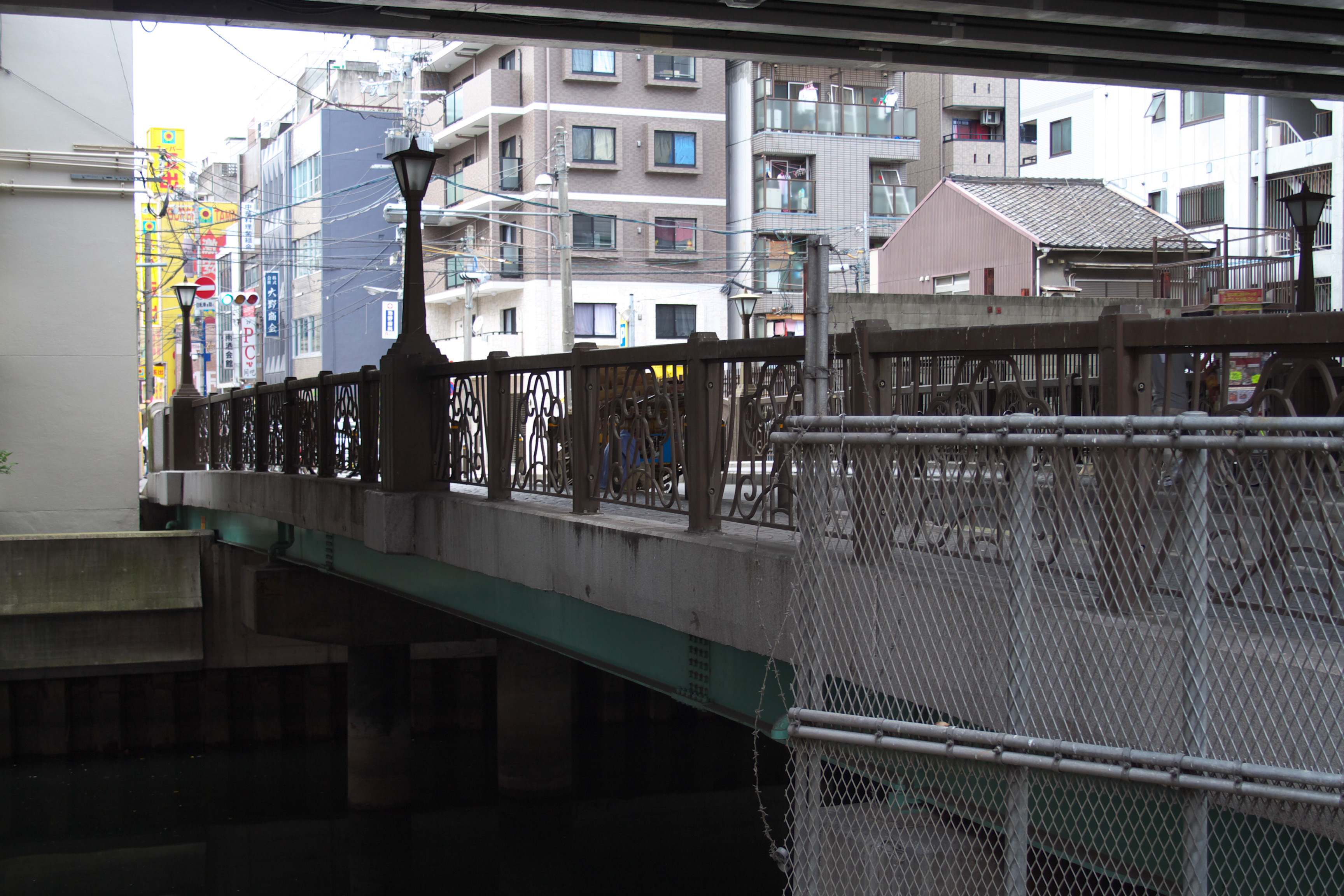 Kawarayabashi Bridge (Osaka City, JAPAN)